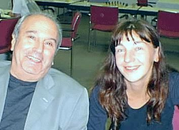 Alexander Roshal and Anna Dergatschova-Daus, 2002 in the press centre at Dortmund (Chess-Meeting 2002).